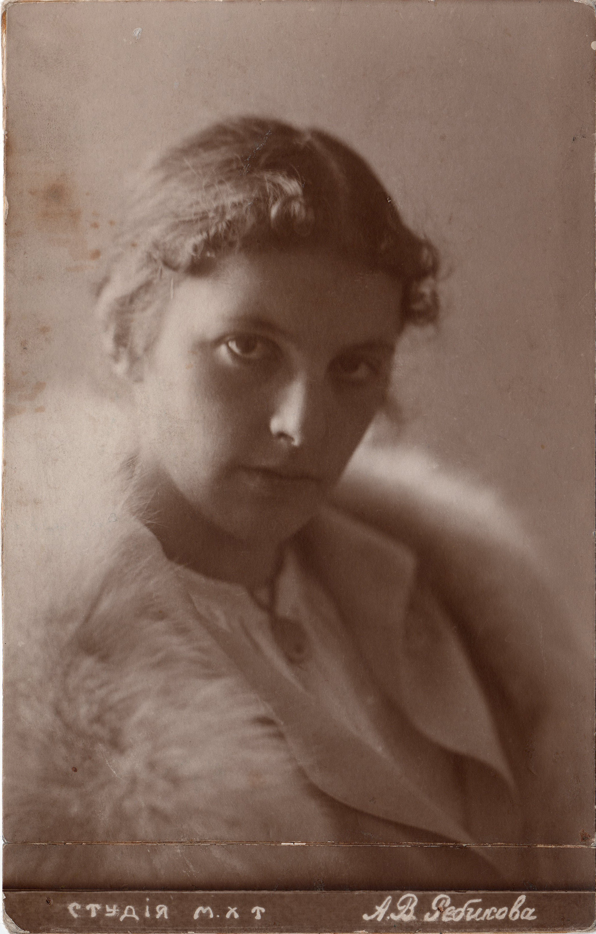 Actress Alexandra Rebikova. Pre-revolutionary photograph of the second half of 1910-ies